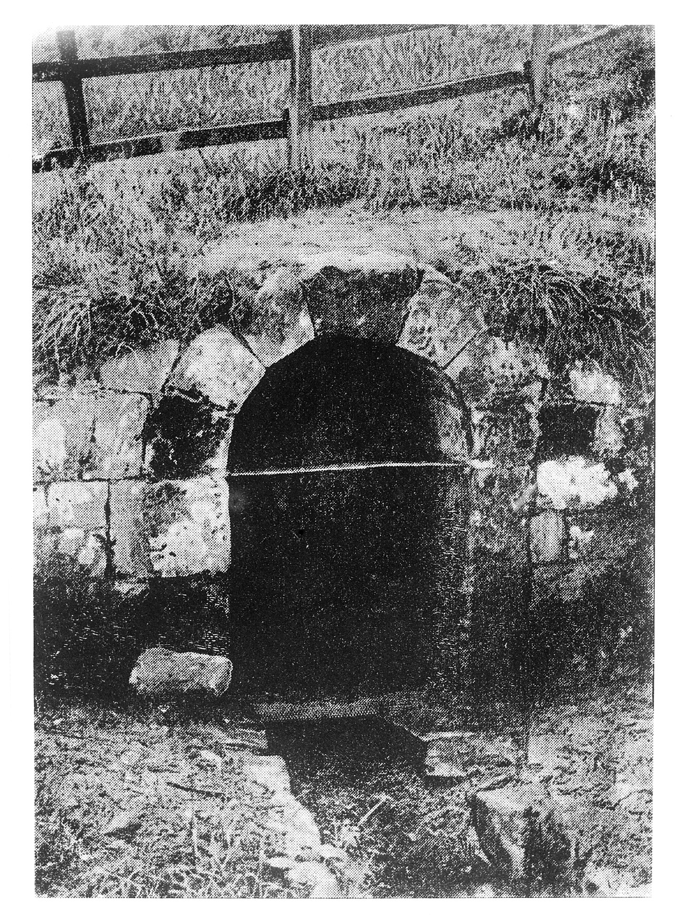 St. Oswalds well Oswestry, Shropshire. Curing eye trouble. Wellcome Images Keywords: wells and springs